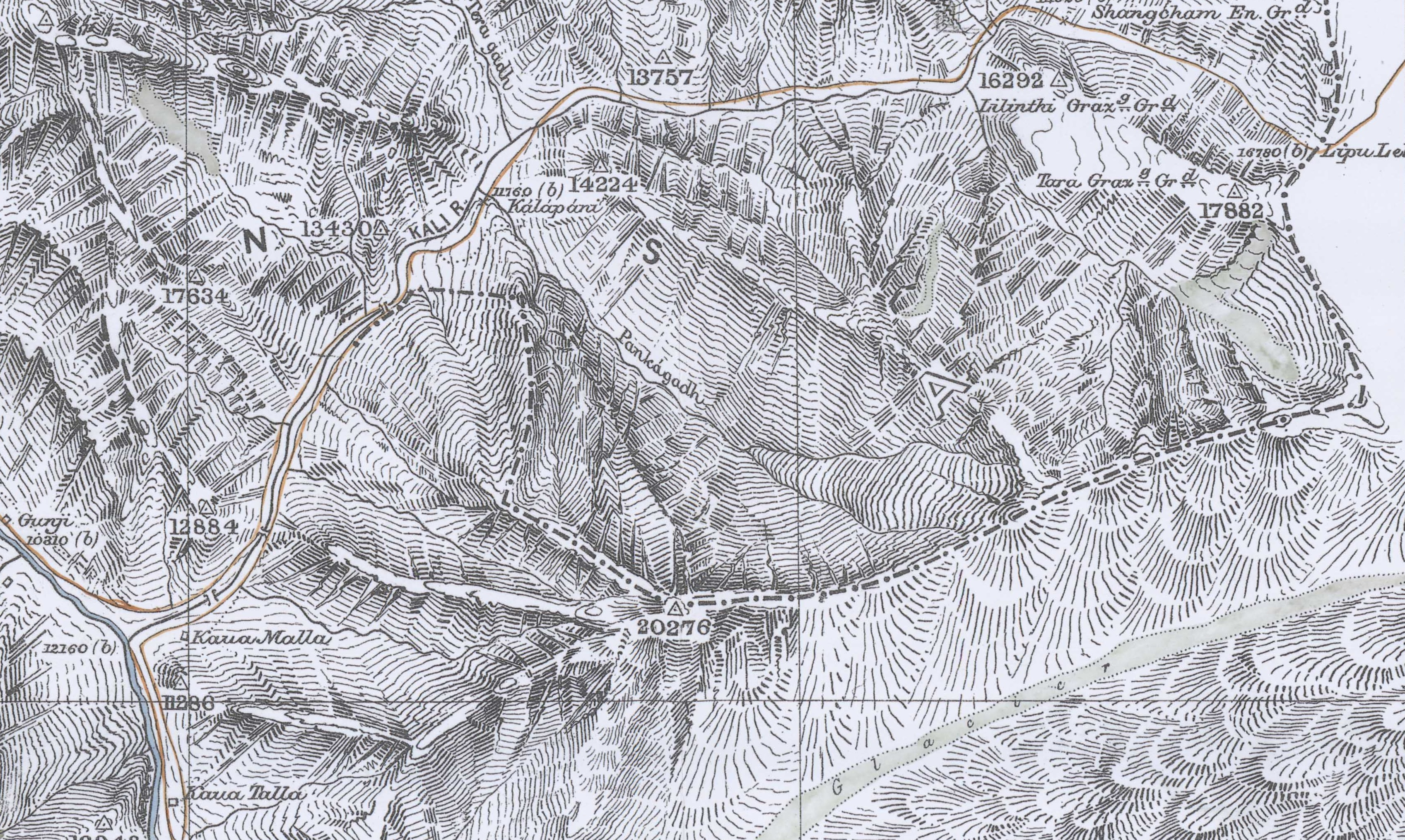 Kalapani territory claimed by British India